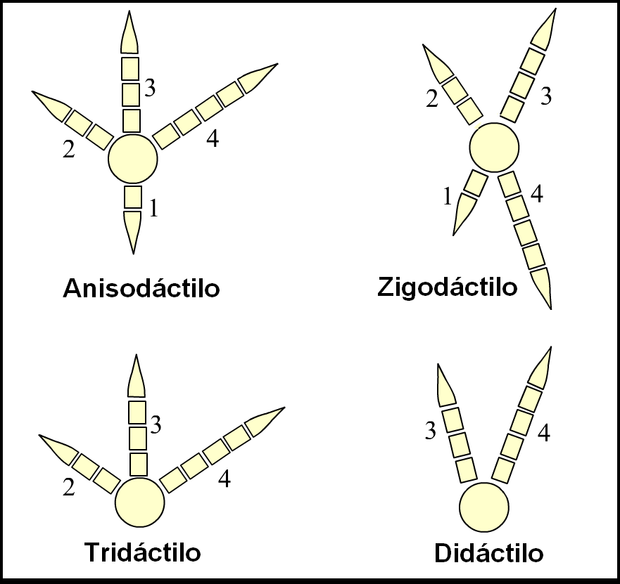 Positions of digits in bird feet.